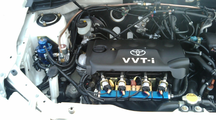 An engine room of Toyota Probox converted to bifuel with LPG. You can see a vaporizer and gas injectors.